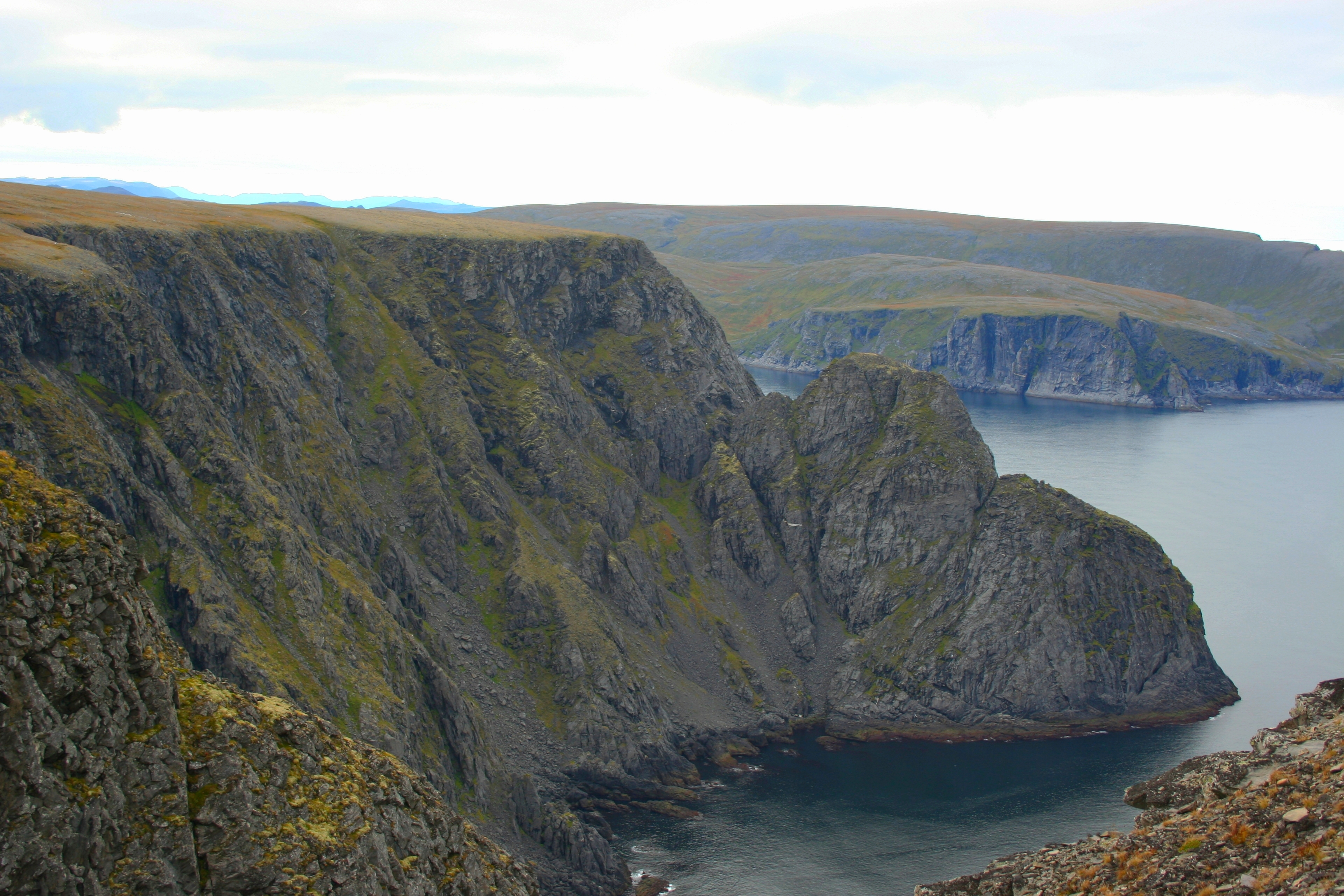 North Cape, Norway, Köppen-Geiger ET climate